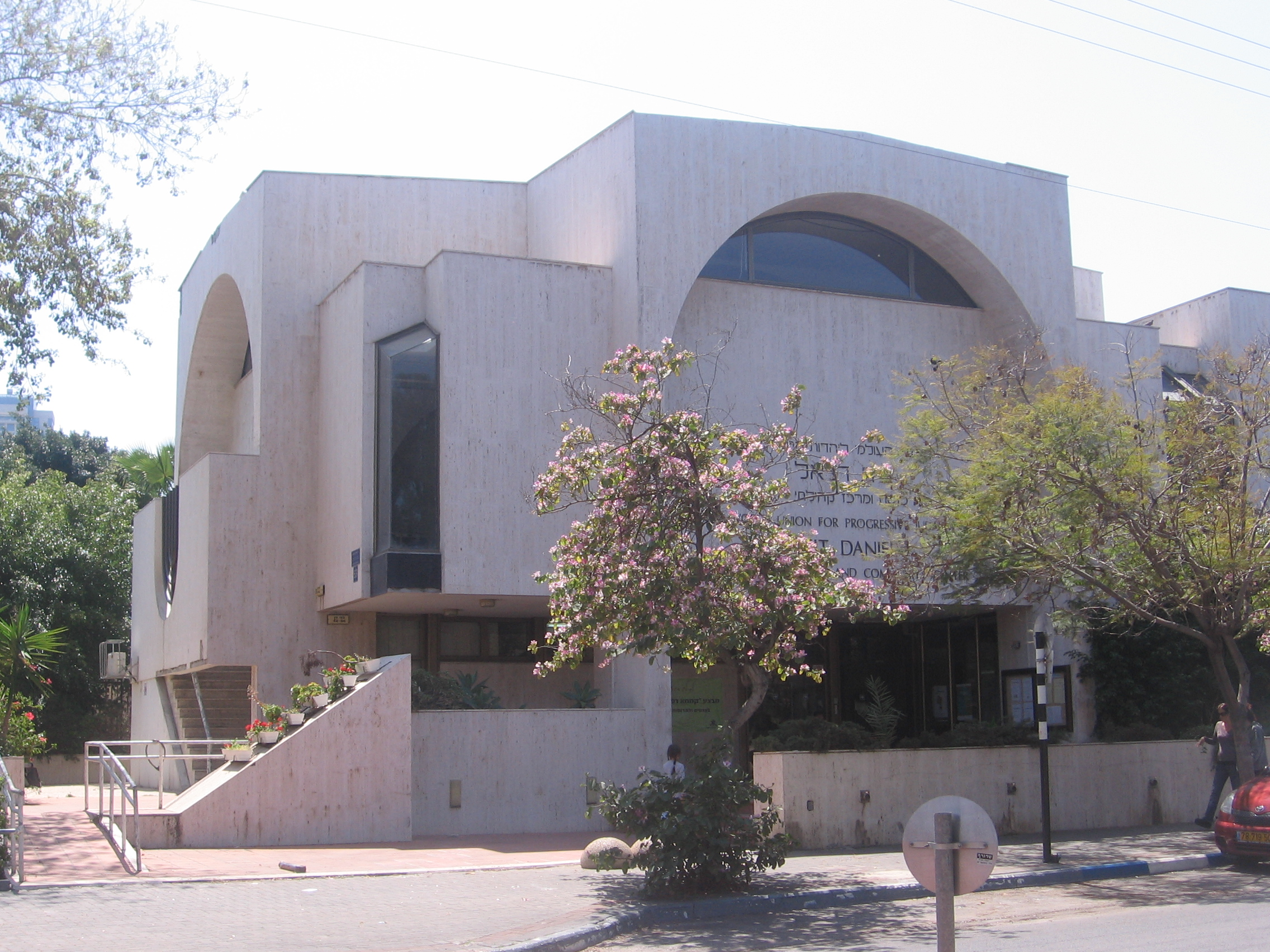 Daniel House: Tel Aviv's reformist synagogue.